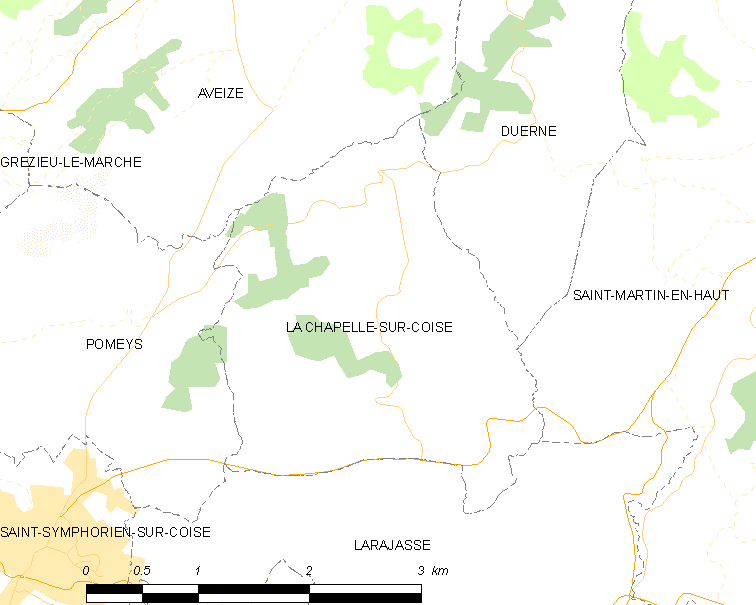 Map of French municipality